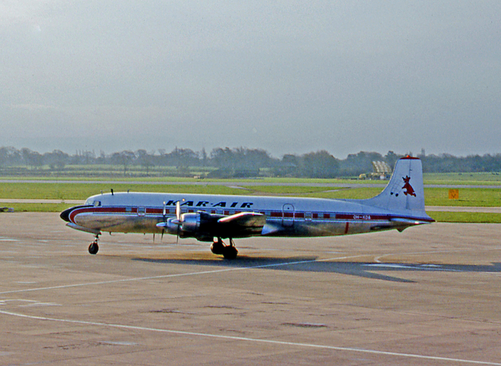 Douglas DC-6BST OH-KDA of Kar-Air operating a freight flight to Manchester Airport in 1979